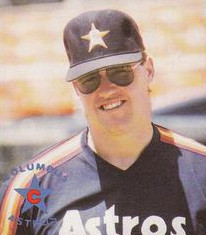 Professional baseball player Charlie Kerfeld